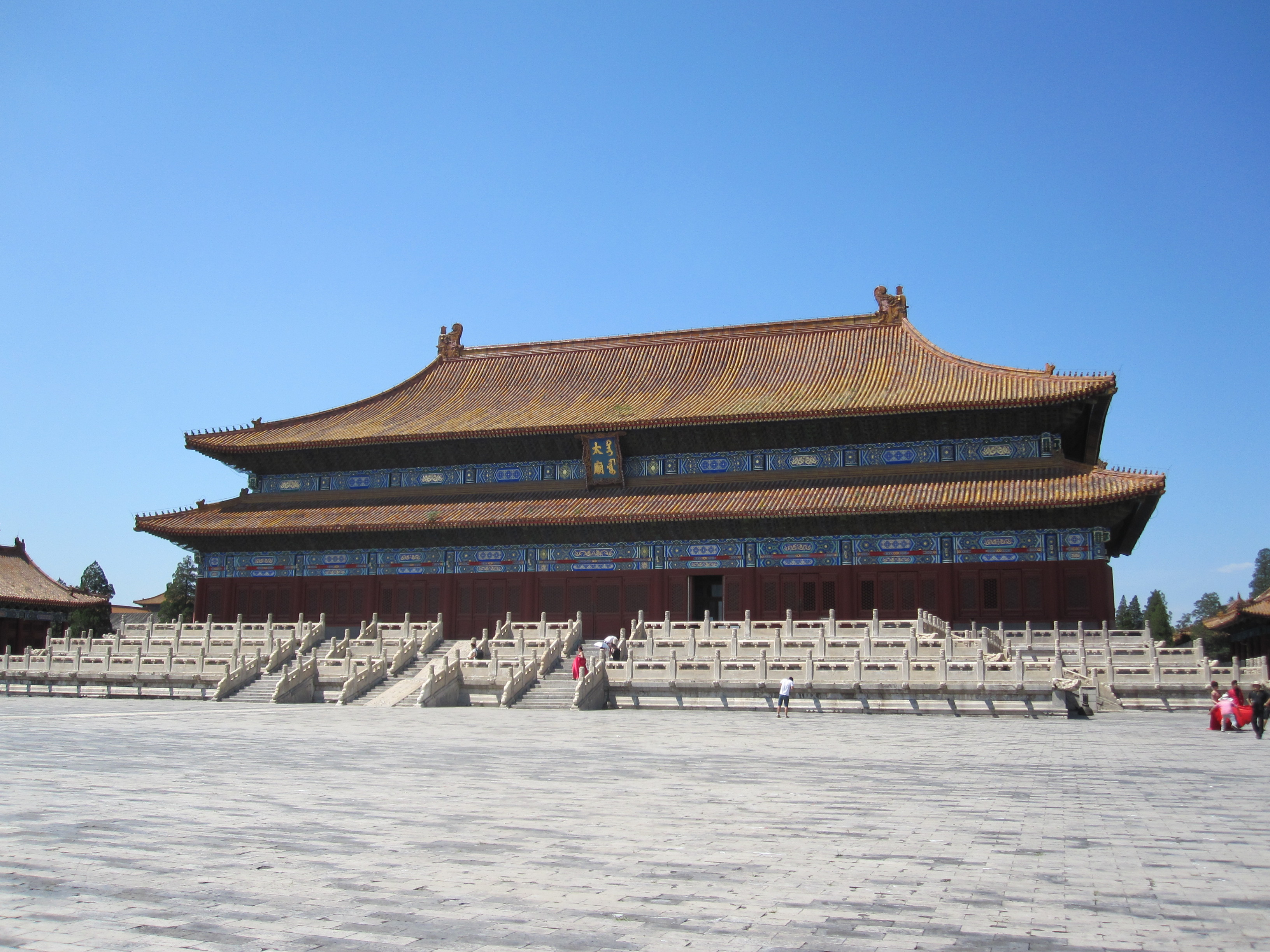 Imperial Ancestral Temple in Beijing, China.